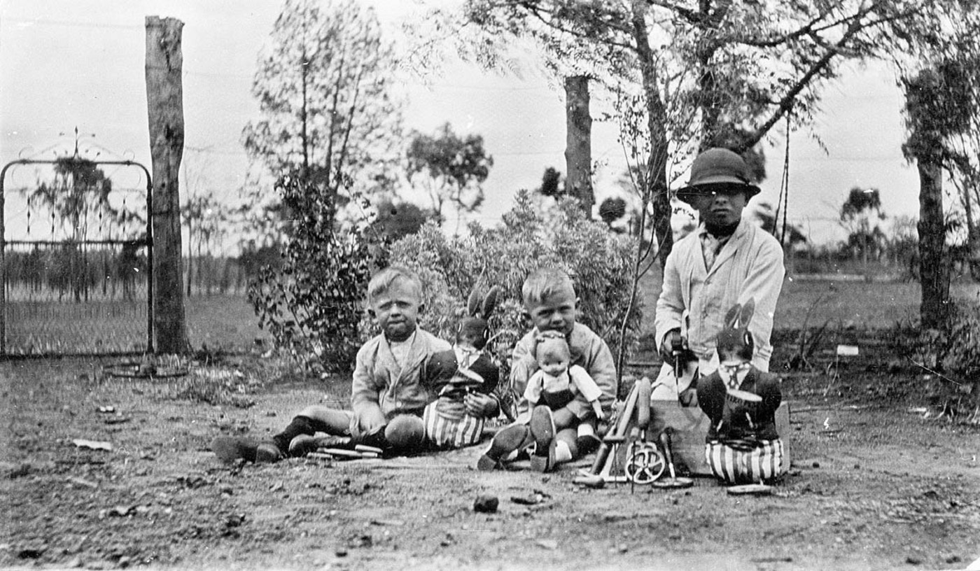 Format: Photograph Find more detailed information about this photograph collection: .au/item/itemDetailPaged.aspx?itemID=388113 From the collection of the State Library of New South Wales